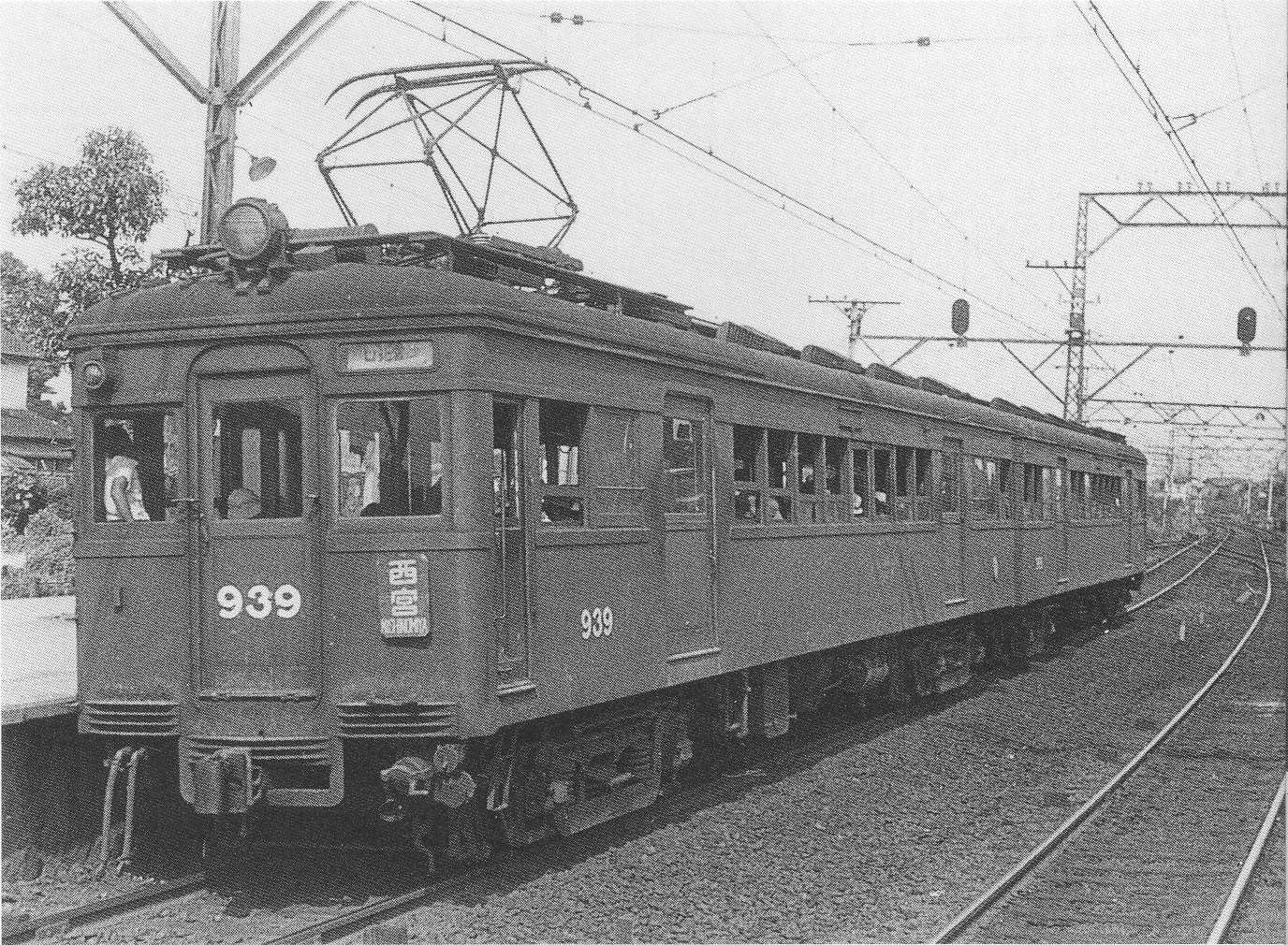 Hankyu 939